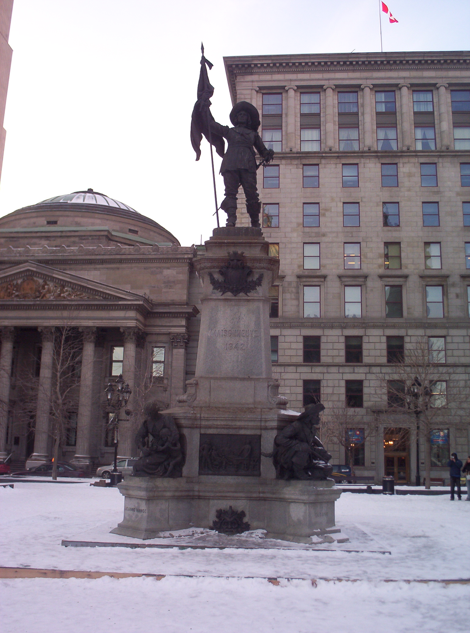 Monument to Maisonneuve, Montréal Author: Colocho Date: January 22nd, 2006